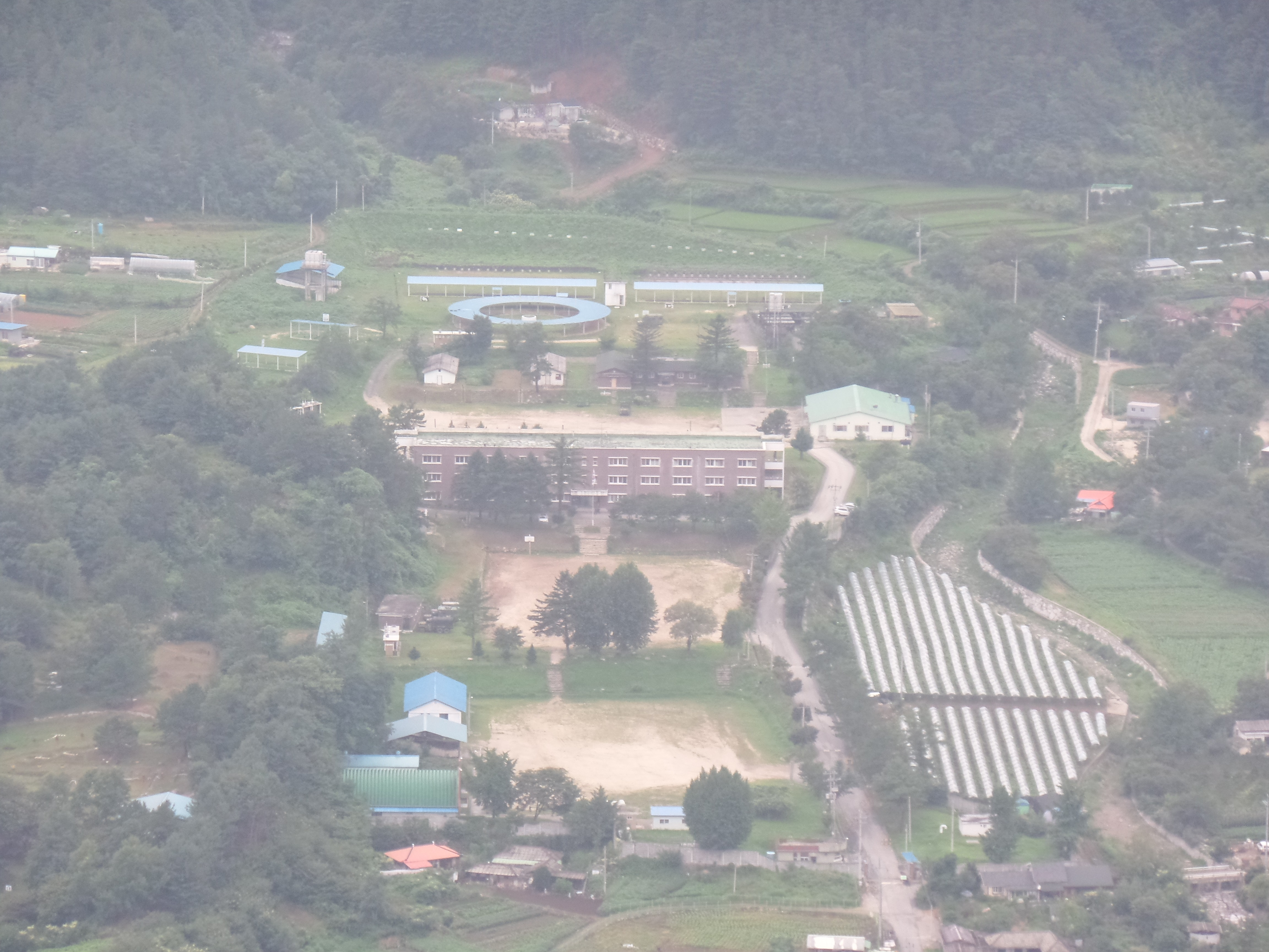 Scenery of Republic of Korea Army 66th Infantry Division Reserve Forces Training Camp